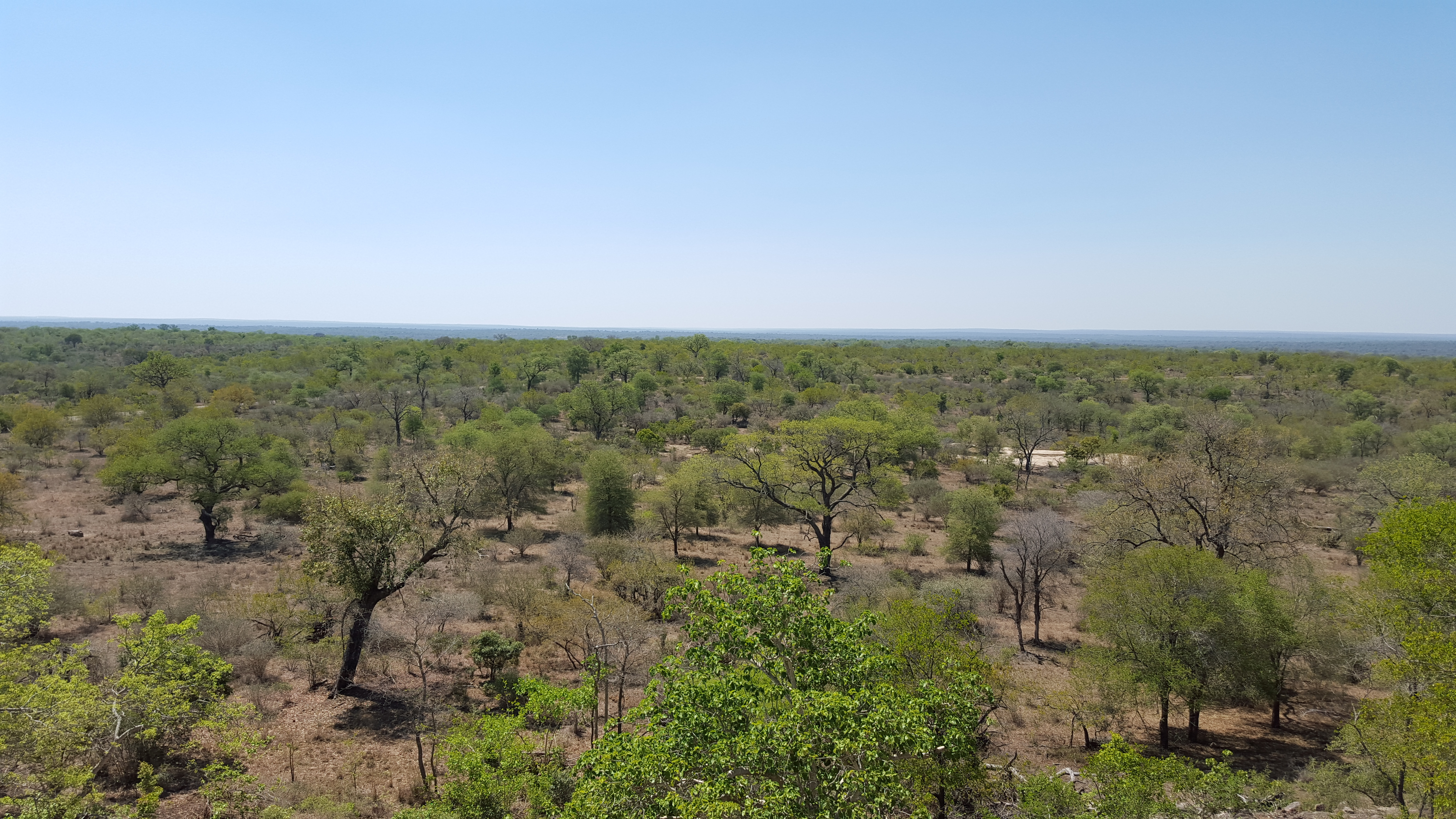 Taken from Klipwerf plek